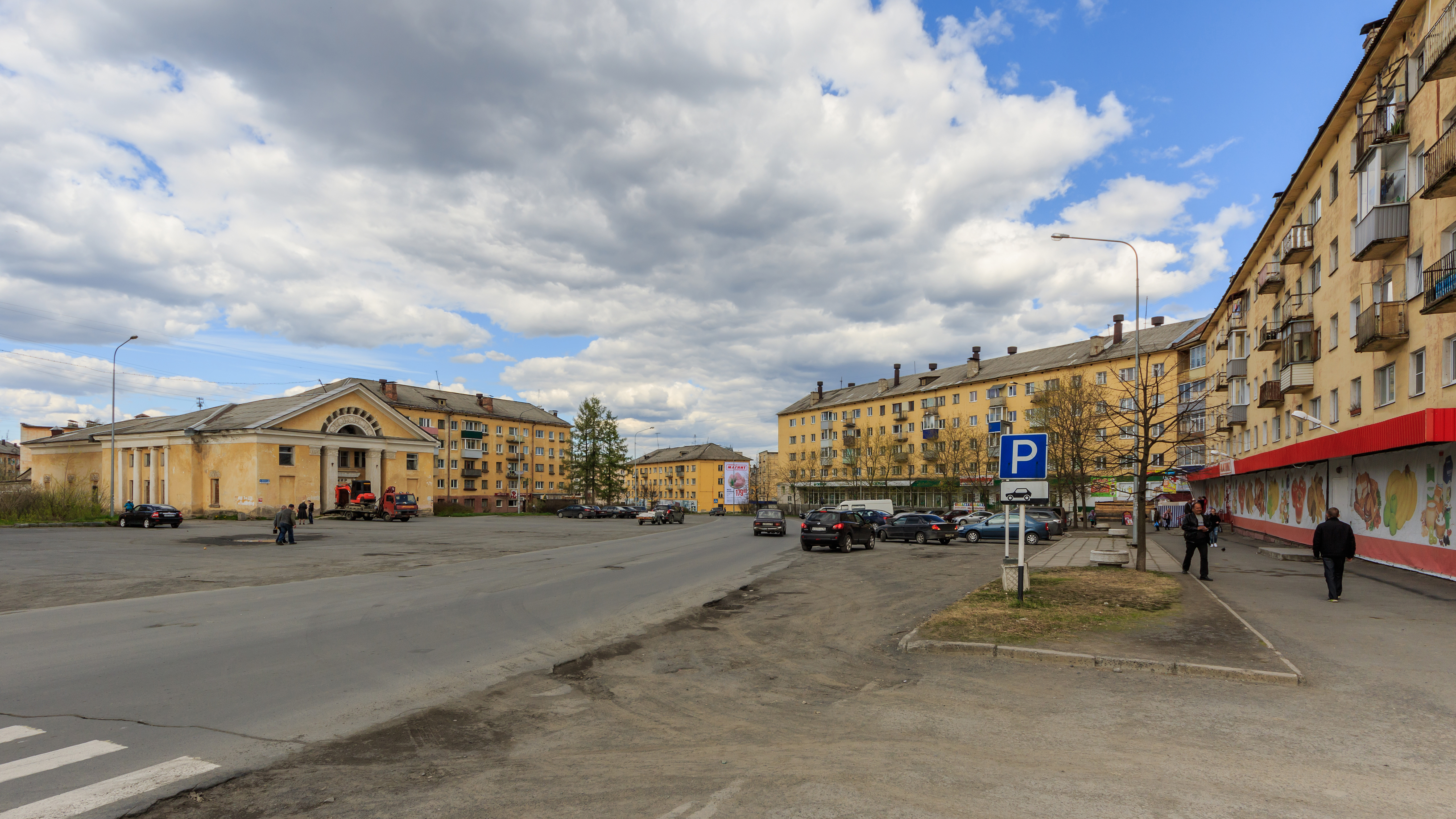 Mira Square in Kondopoga, Republic of Karelia (Russia).